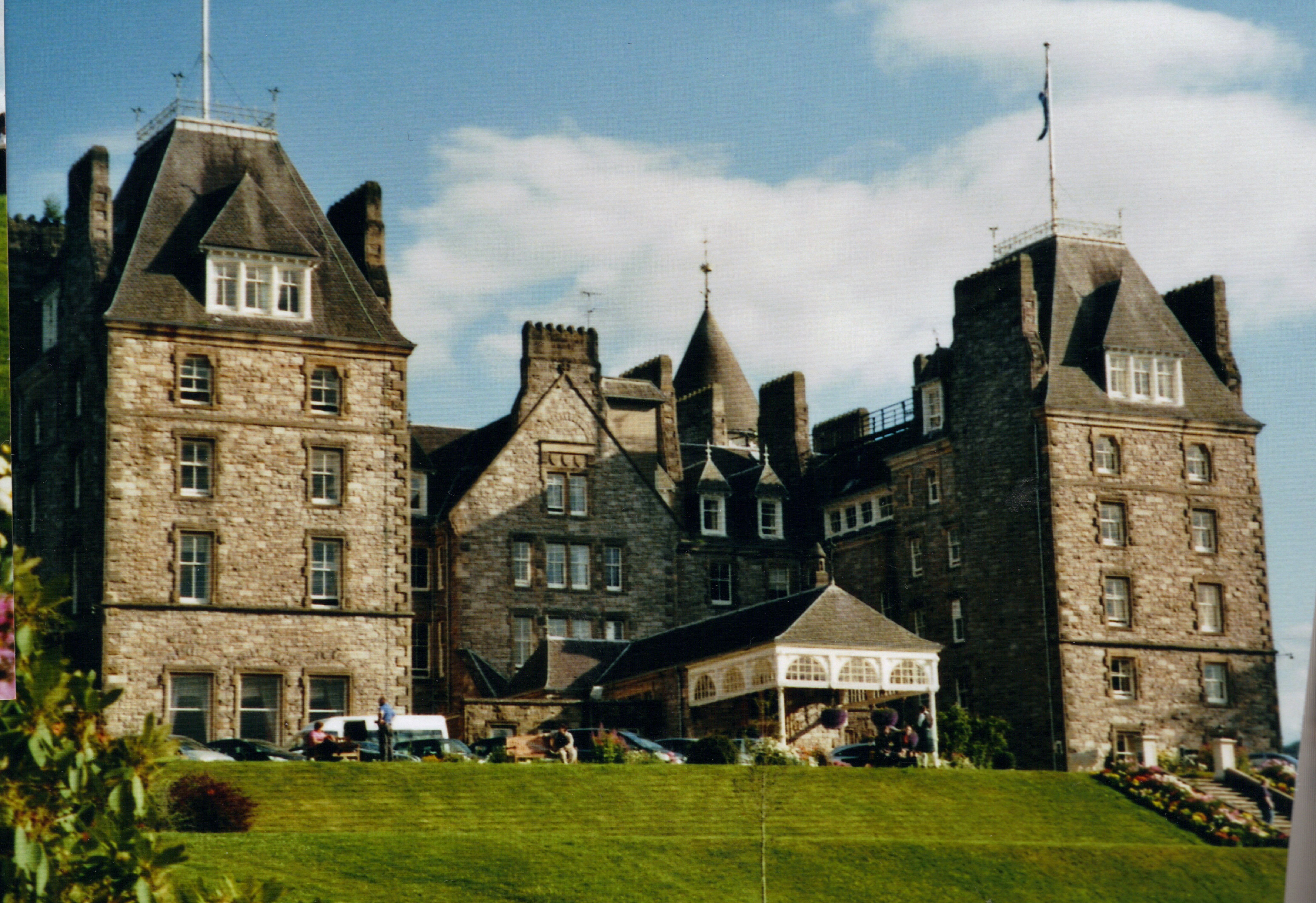 Atholl Palace Hotel, Pitlochry, Scotland